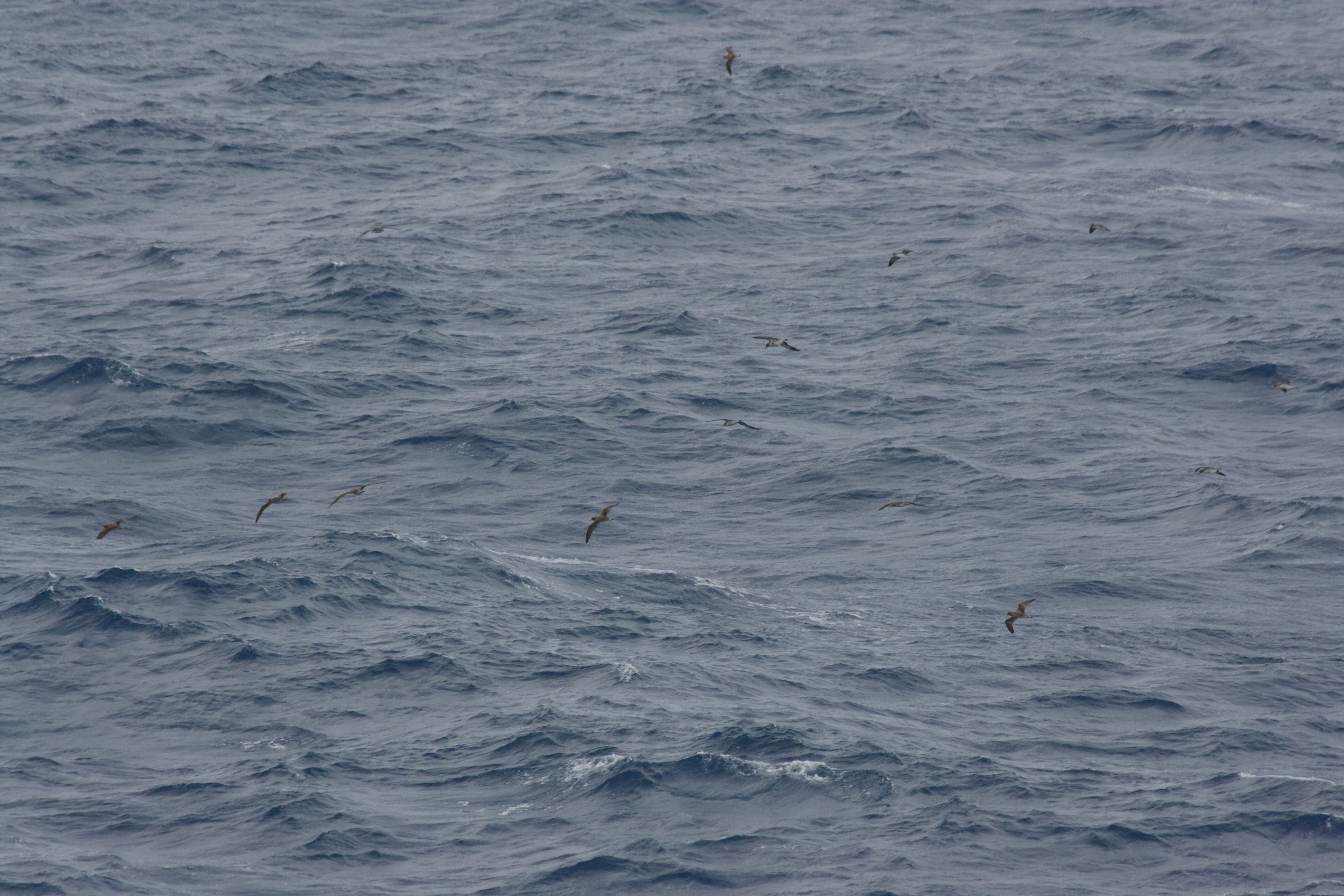 Cory's Shearwater Calonectris diomedea group 200 nm east of Madeira